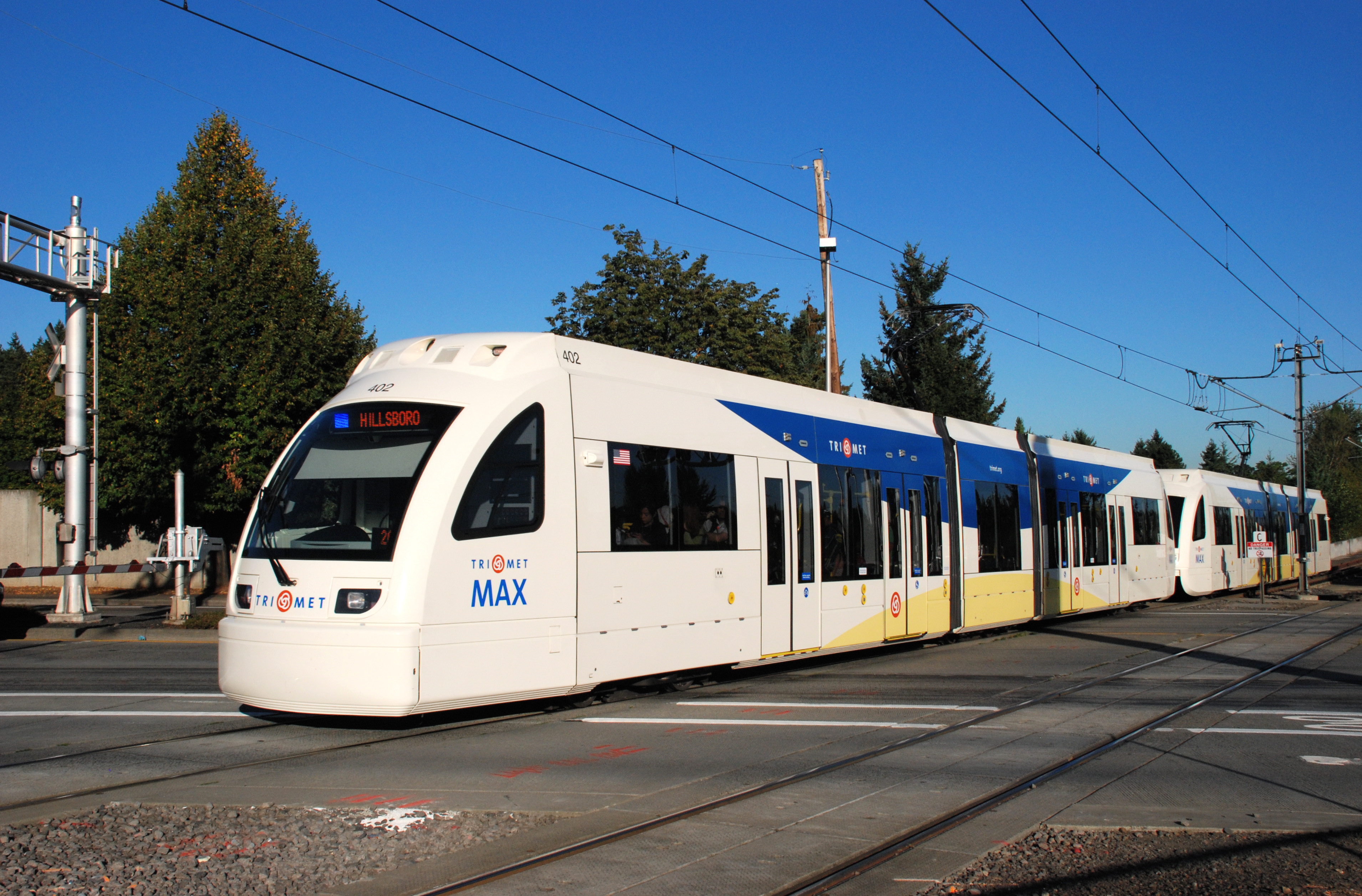 A two-car train of Siemens S70 light rail cars on the MAX system, operated by TriMet, the transit agency serving the Portland metropolitan area. TriMet calls this model its "Type 4". 2008-built cars 402 and 401 are pictured crossing 185th Avenue, from western Beaverton into Hillsboro on TriMet's Blue Line.